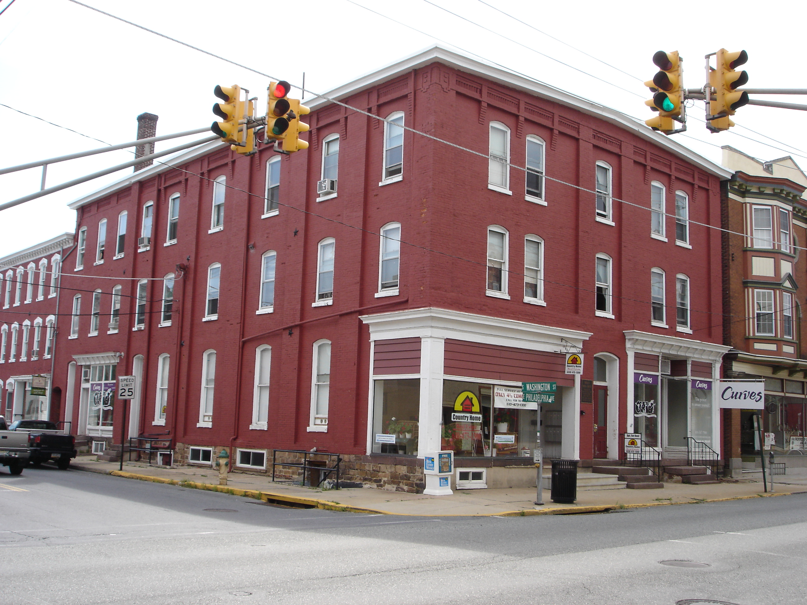 Former Boyertown Opera House at S Washington St and E Philadelphia Ave in Boyertown, PA